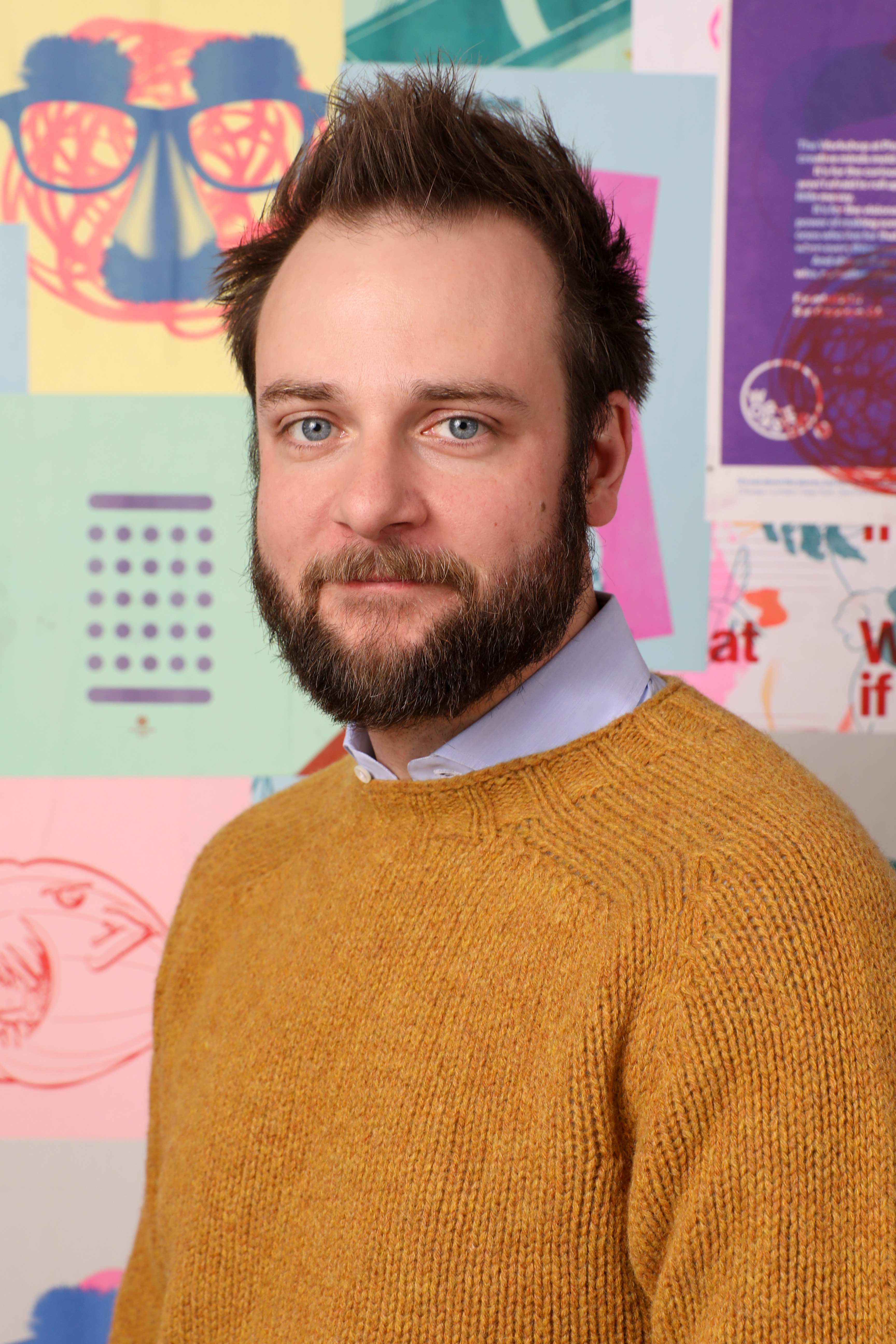 Headshot of Evan Sharp, Chief Design & Creative Officer of Pinterest